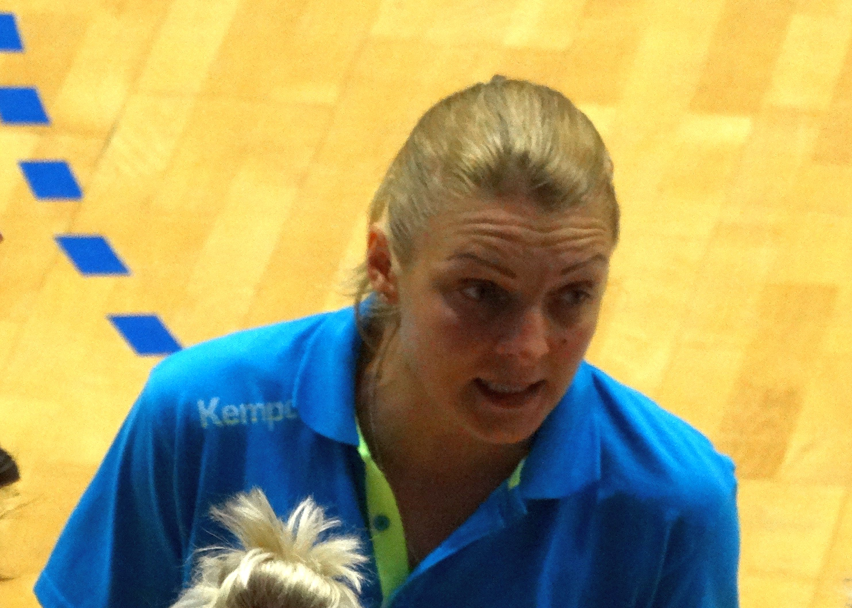 Romanian coach and former handball player Simona Gogîrlă.